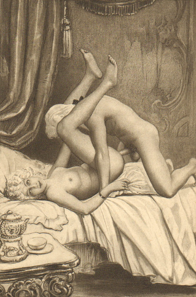 Illustration IV from Fanny Hill: Charles plucks Fanny's virgin flower